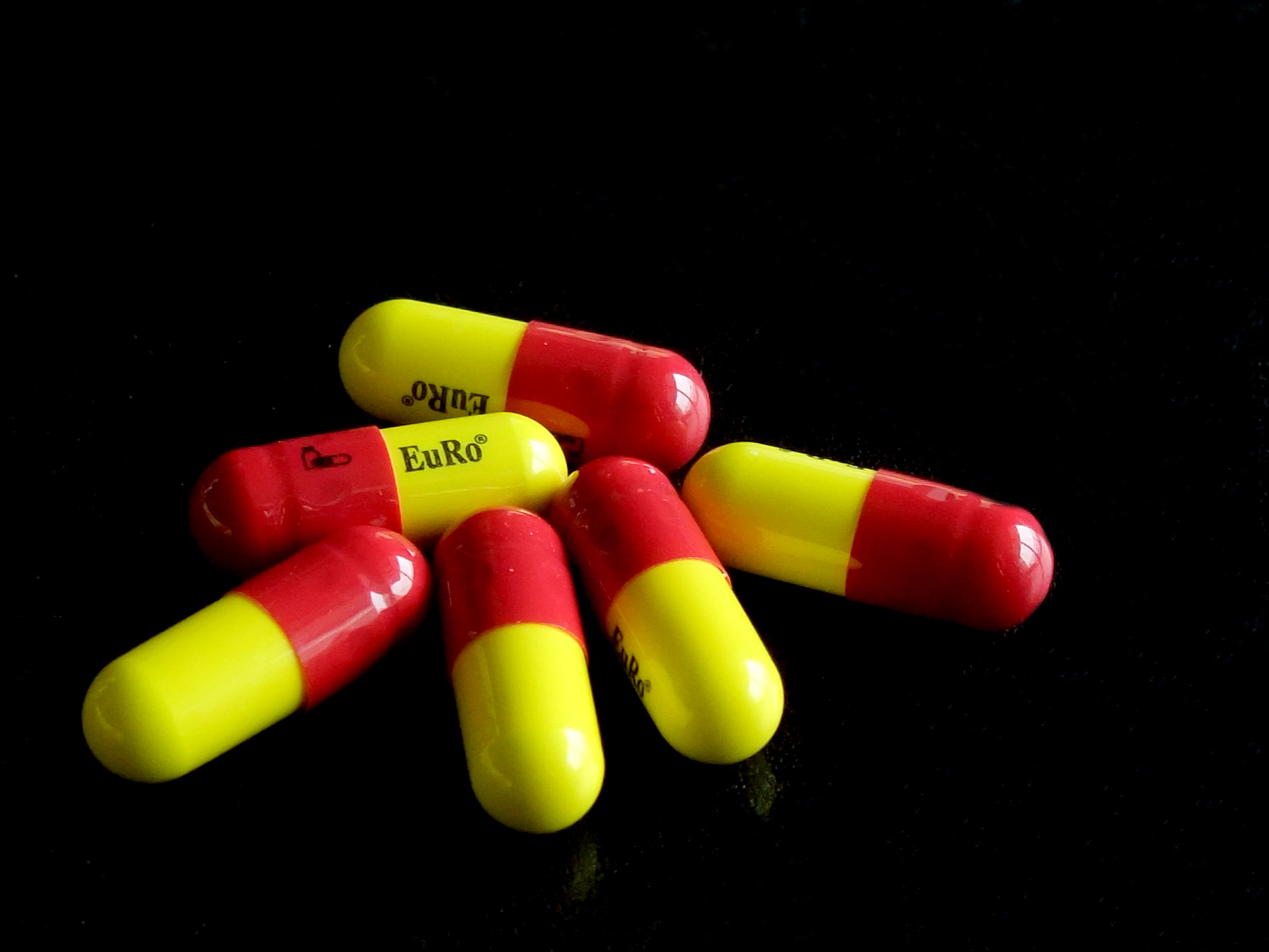 Potofen (Ibuprofen) 200mg capsule.